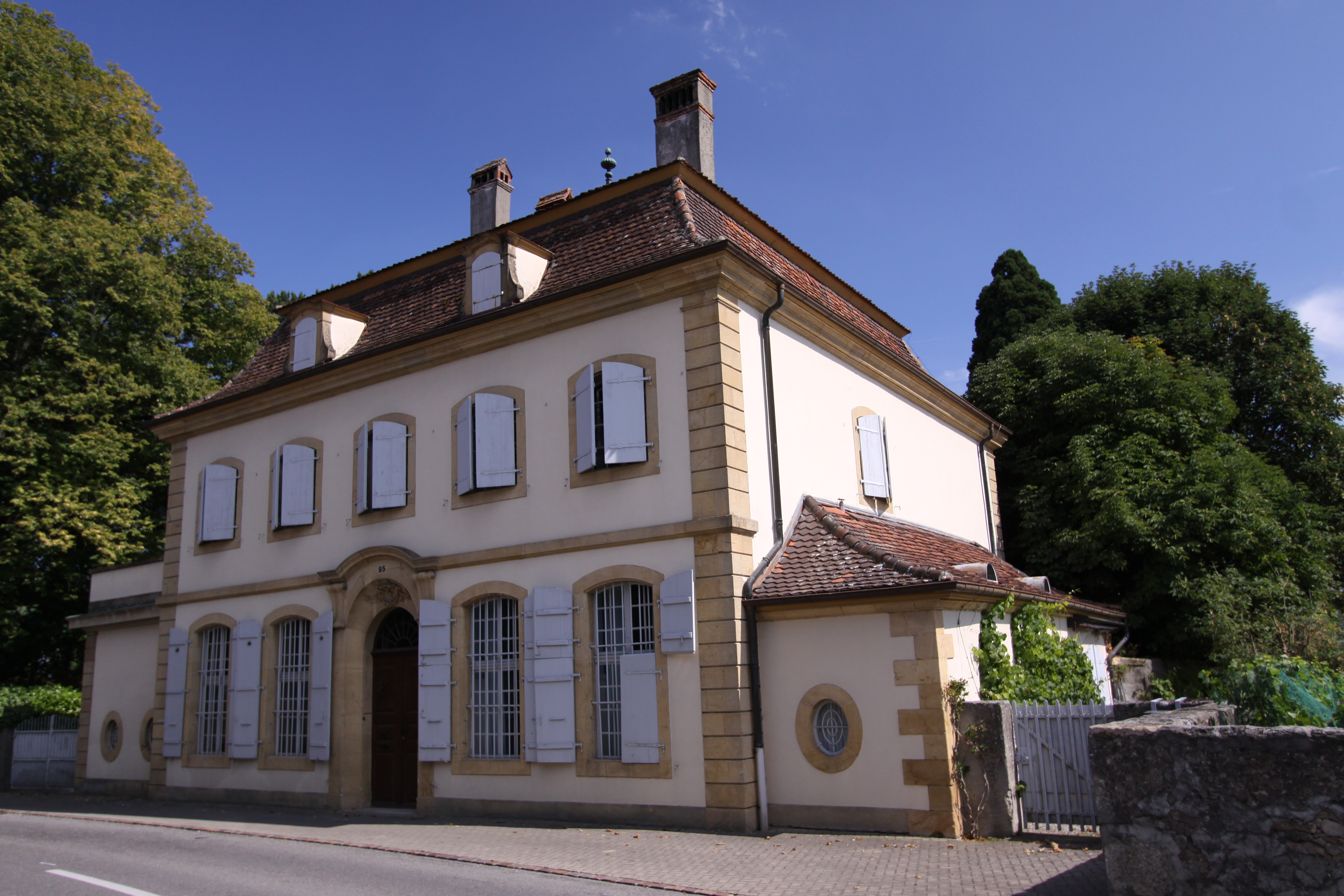 Gatschet House, Route du Lac 95, Môtier, Haut-Vully